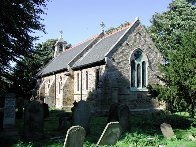 St Giles' parish church, Marfleet, East Riding of Yorkshire, seen from the southeast